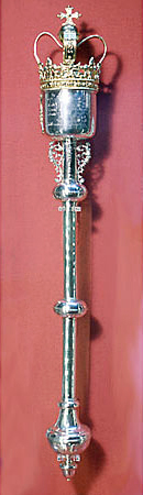 Mace, London 1694-5, Mark of Benjamin Pyne Museum no. 808-1897